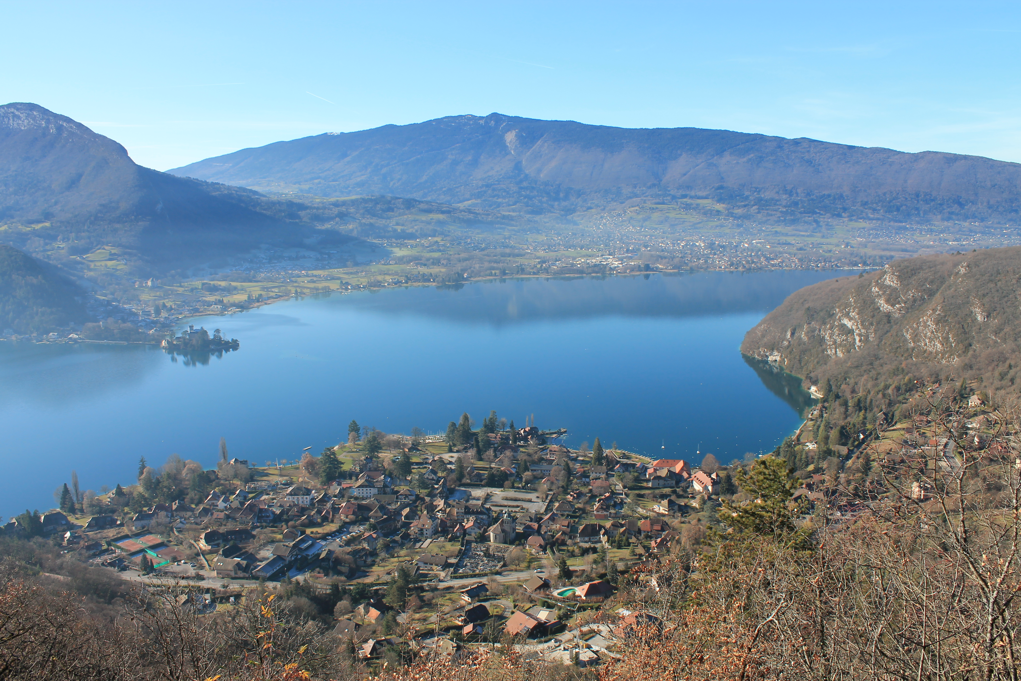 Duingt, the castles and the Talloire's Bay